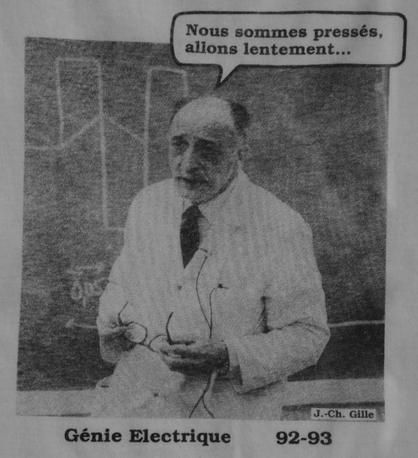 Jean-Charles Gille. Monsieur Gille during a class of EE at Laval University. He was a very dedicated professor. This picture was taken while in class and was used (with his permission obviously) to fund raise graduation activities for the 1994 promotion. Needless to say that the T-shirt on which this picture was printed sold very fast as "Monsieur Gille" was a popular and respected figure. "Nous sommes pressés, allons lentement" (We're in a hurry, let's go slow) was one of his favorite sayings.